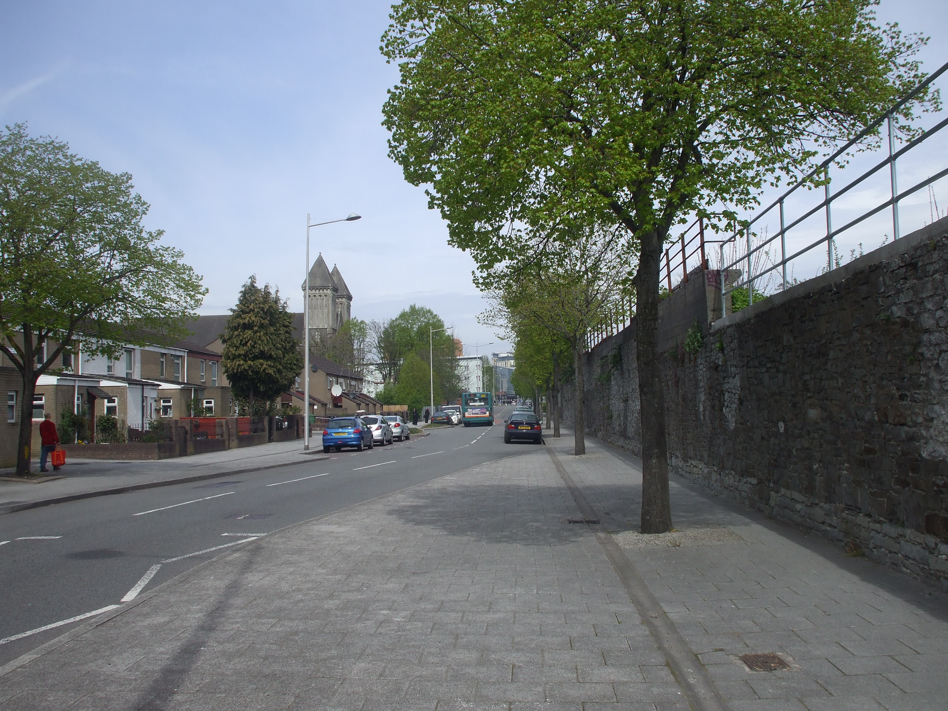 Bute St, Cardiff, northern end